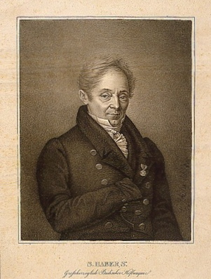 Salomon Baron von Haber German banker; born at Breslau Nov. 3, 1760; died Feb. 20, 1839.